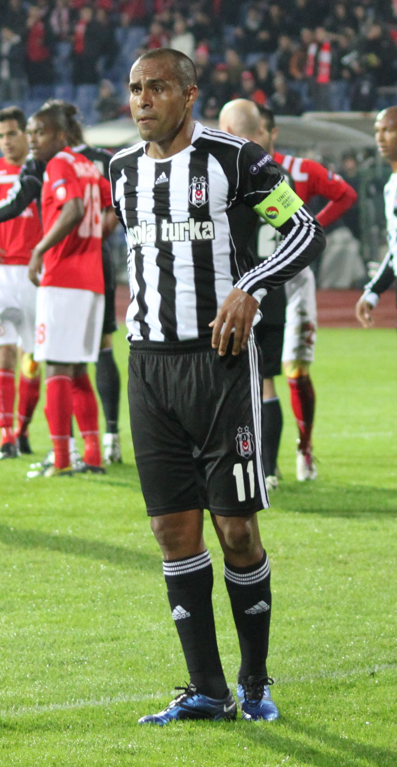 Márcio Ferreira Nobre (born November 6, 1980 in Jateí), also known as Mert Nobre, is a Brazilian football (soccer) player. He plays at the striker position. He also holds Turkish nationality.